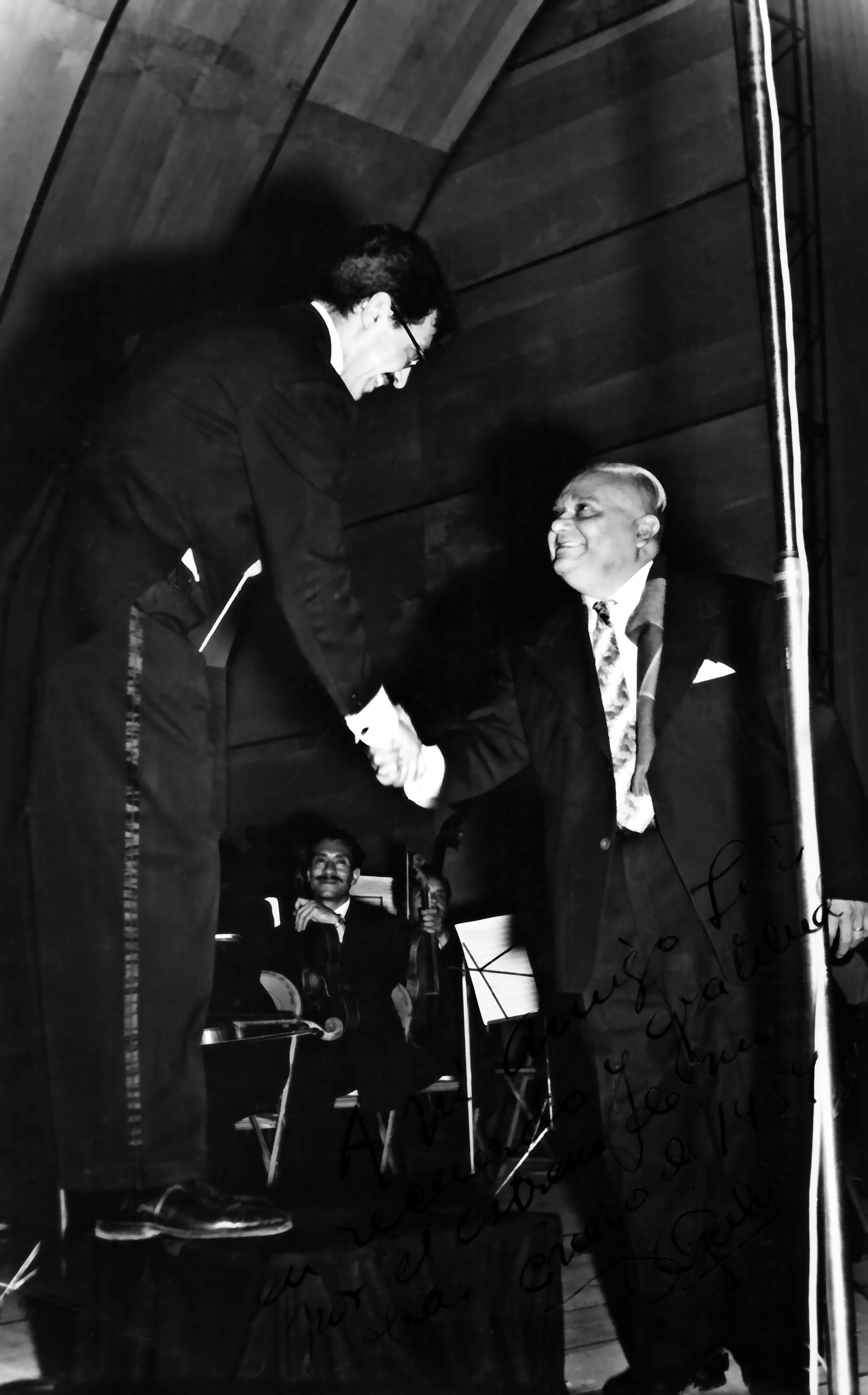 Luis Ximénez Caballero and the composer Daniel Ayala Perez, following the world premiere of his work "Symphony of the Americas" (Op. 20) with the Xalapa Symphony Orchestra on the 19th of August, 1955 in the Palace of Fine Arts in Mexico City